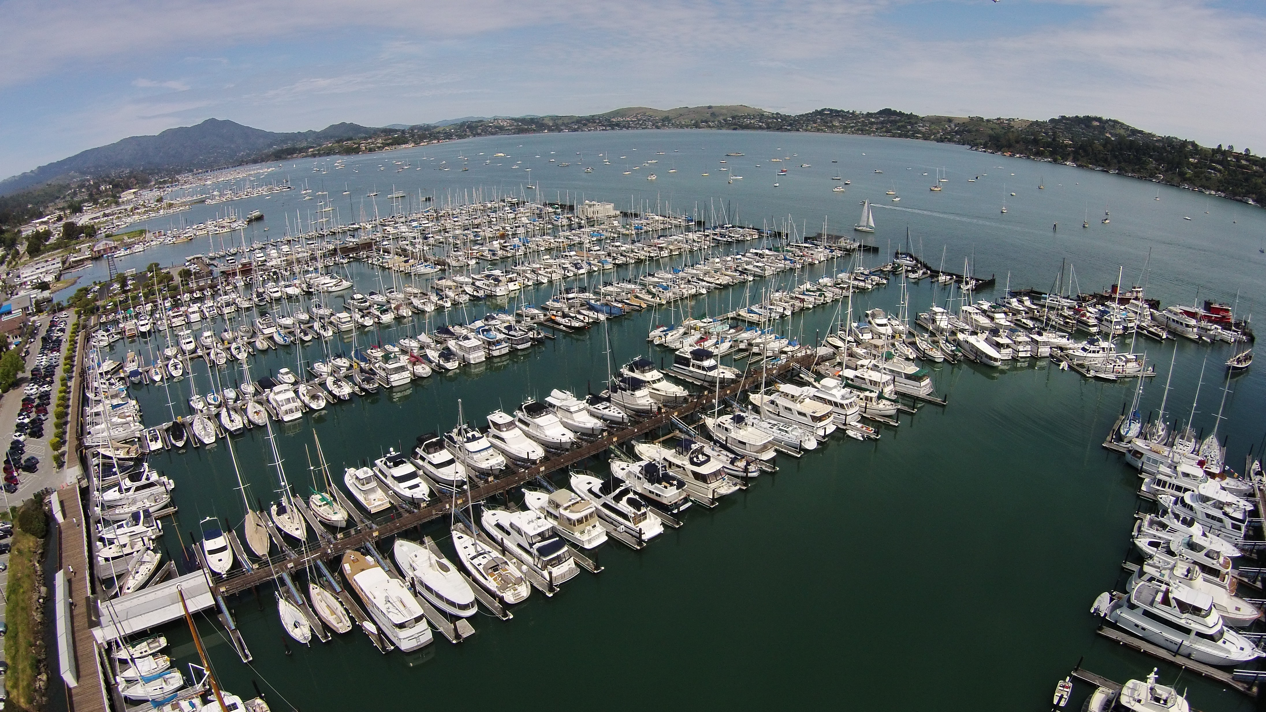 Aerial view of the Sausalito Yacht Harbor